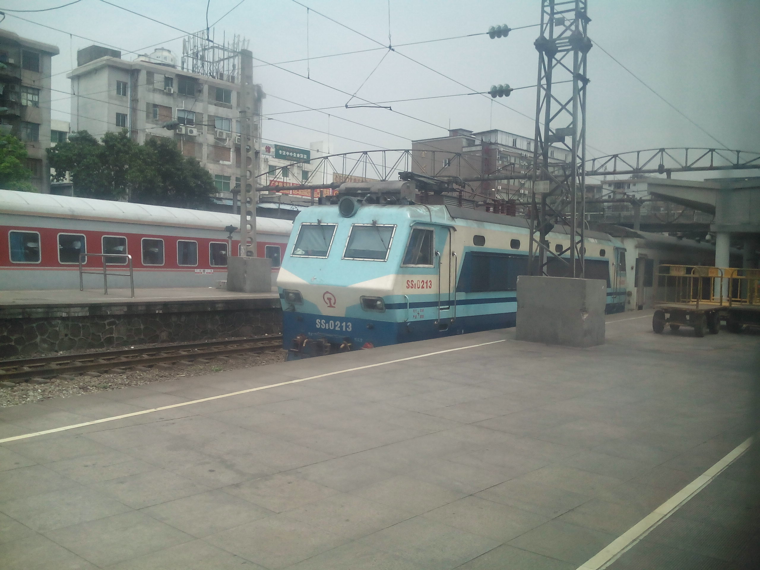 201504 SS8-0213 with Z90 coaches wait for departure at Guangzhou Station